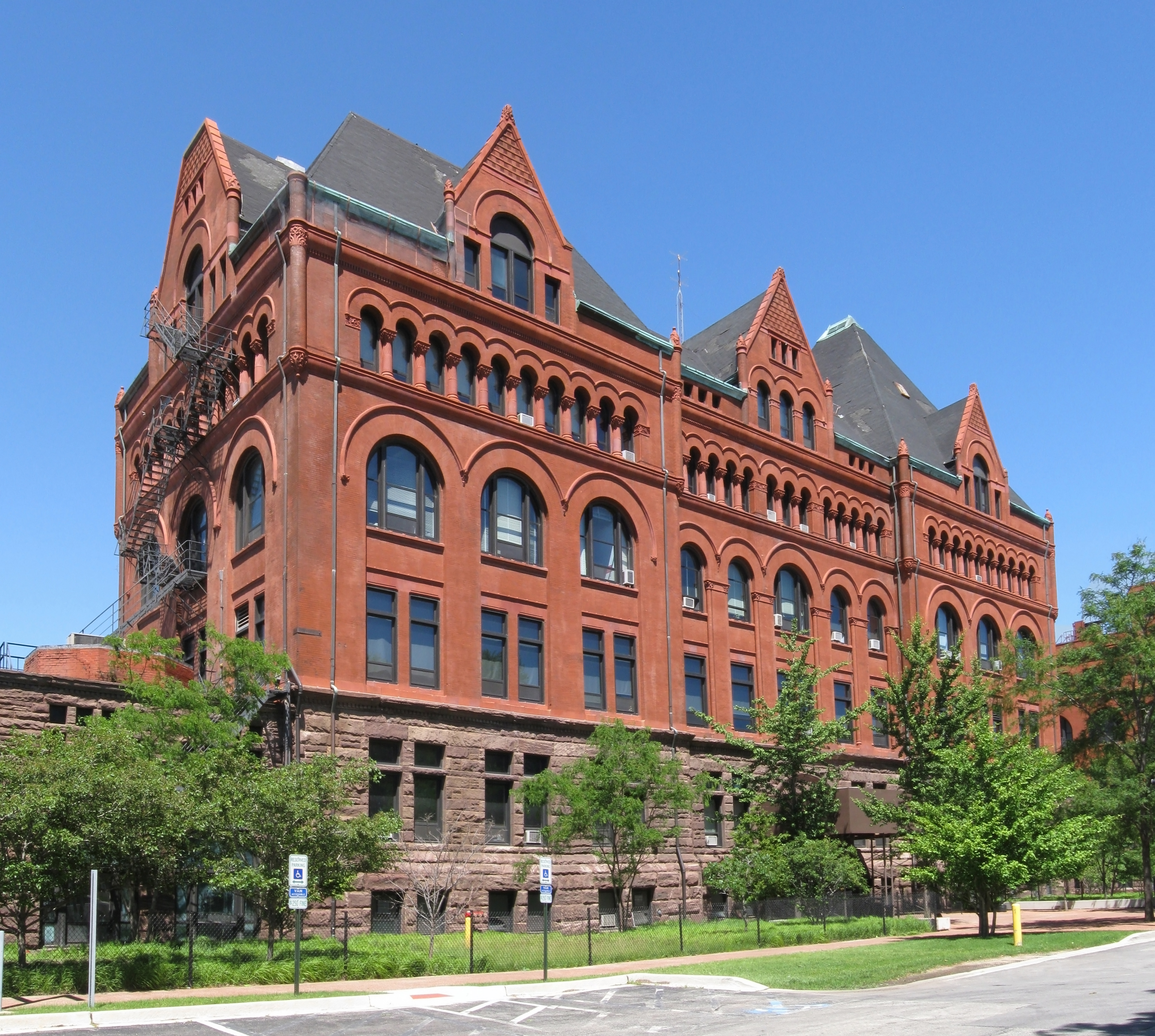 Panorama of Main Building of Illinois Institute of Technology in Chicago, USA.